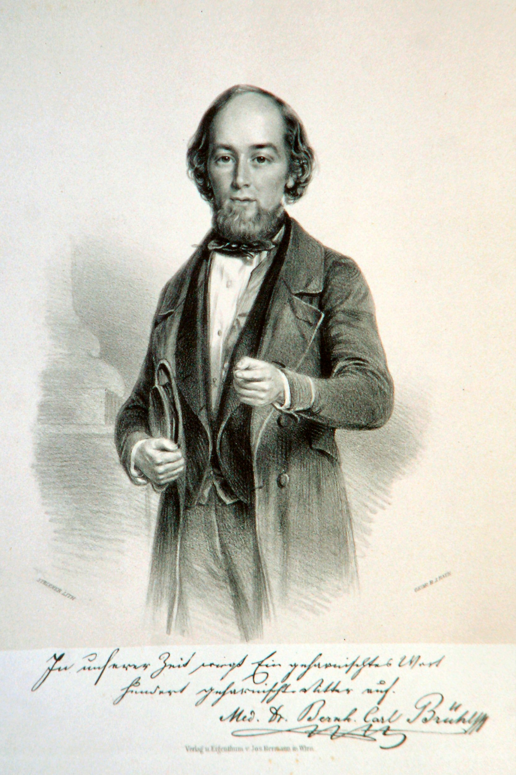 Karl Bernhard Brühl (1820-1899) Anatomist, Zoologist Lithograph by August Strixner, s. a.